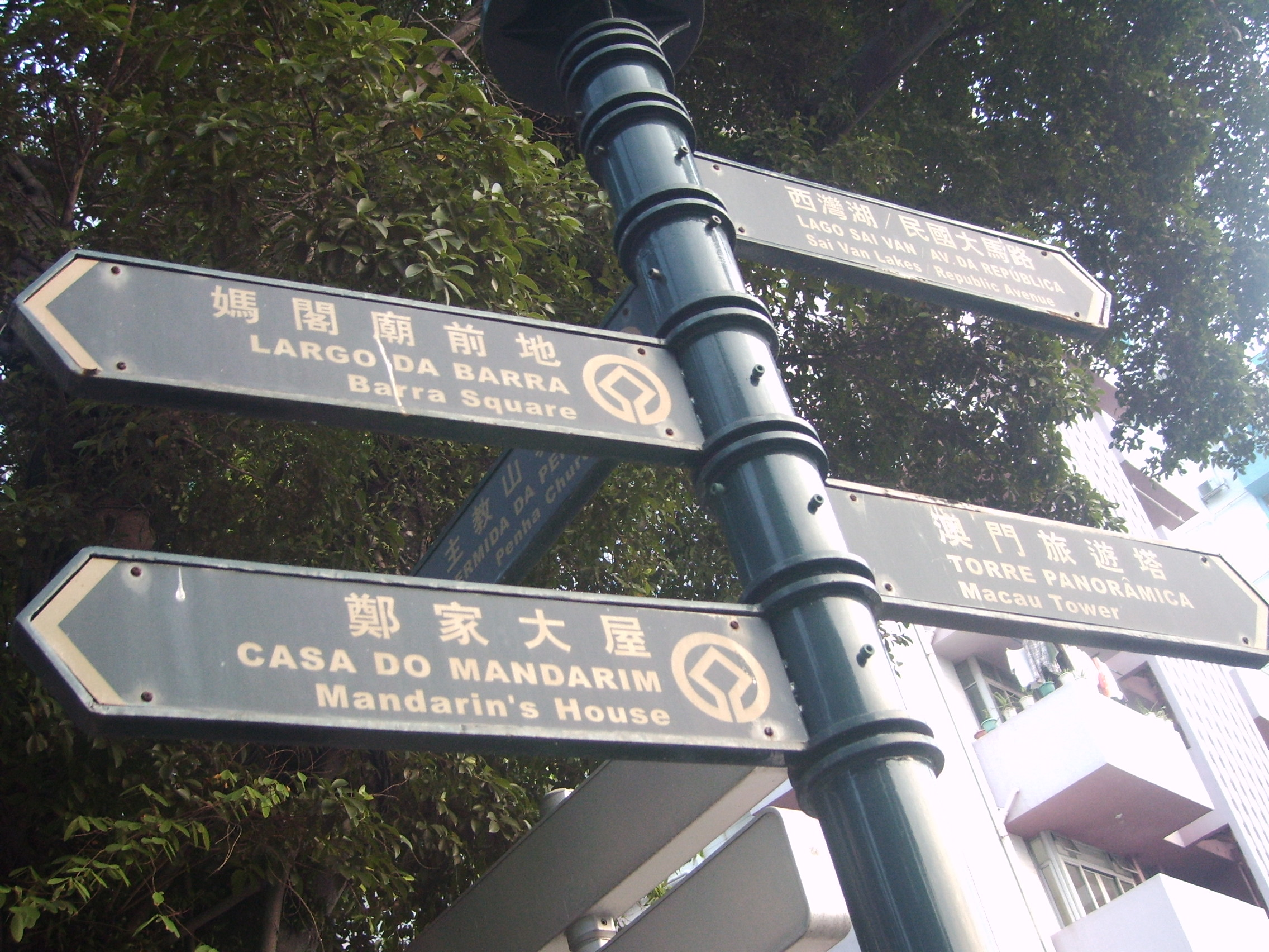 A street sign in Macau detailing the languages officially used in that region.